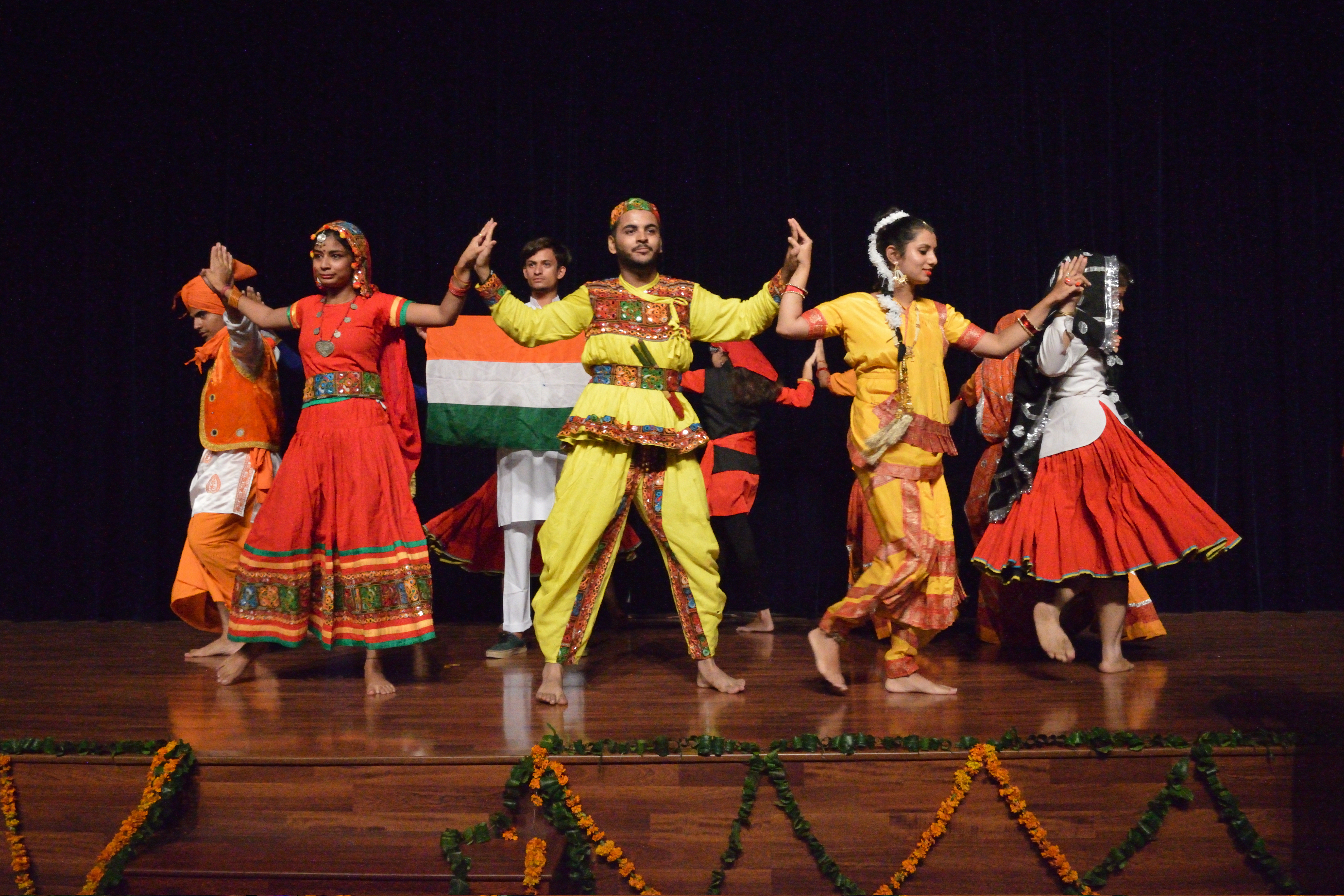 This photograph was taken during the 'WikiConference India 2016' or WCI2016. It was held at the 'Chandigarh Group of Colleges' (CGC), Landran, Mohali on 5, 6, and 7 August 2016. About 200 Wikipedians from India, Bangladesh, Srilanka and the USA were participated at the three day event.